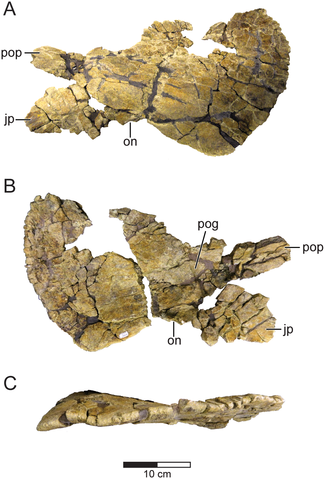 Left squamosal of Machairoceratops cronusi (UMNH VP 20550) gen. et sp. nov. Machairoceratops squamosal in lateral (A), medial (B), and caudal (C) views. Abbreviations: jp, jugal process; on, otic notch; pog, paroccipital groove; pop, postorbital process. Scale bar = 10 cm.